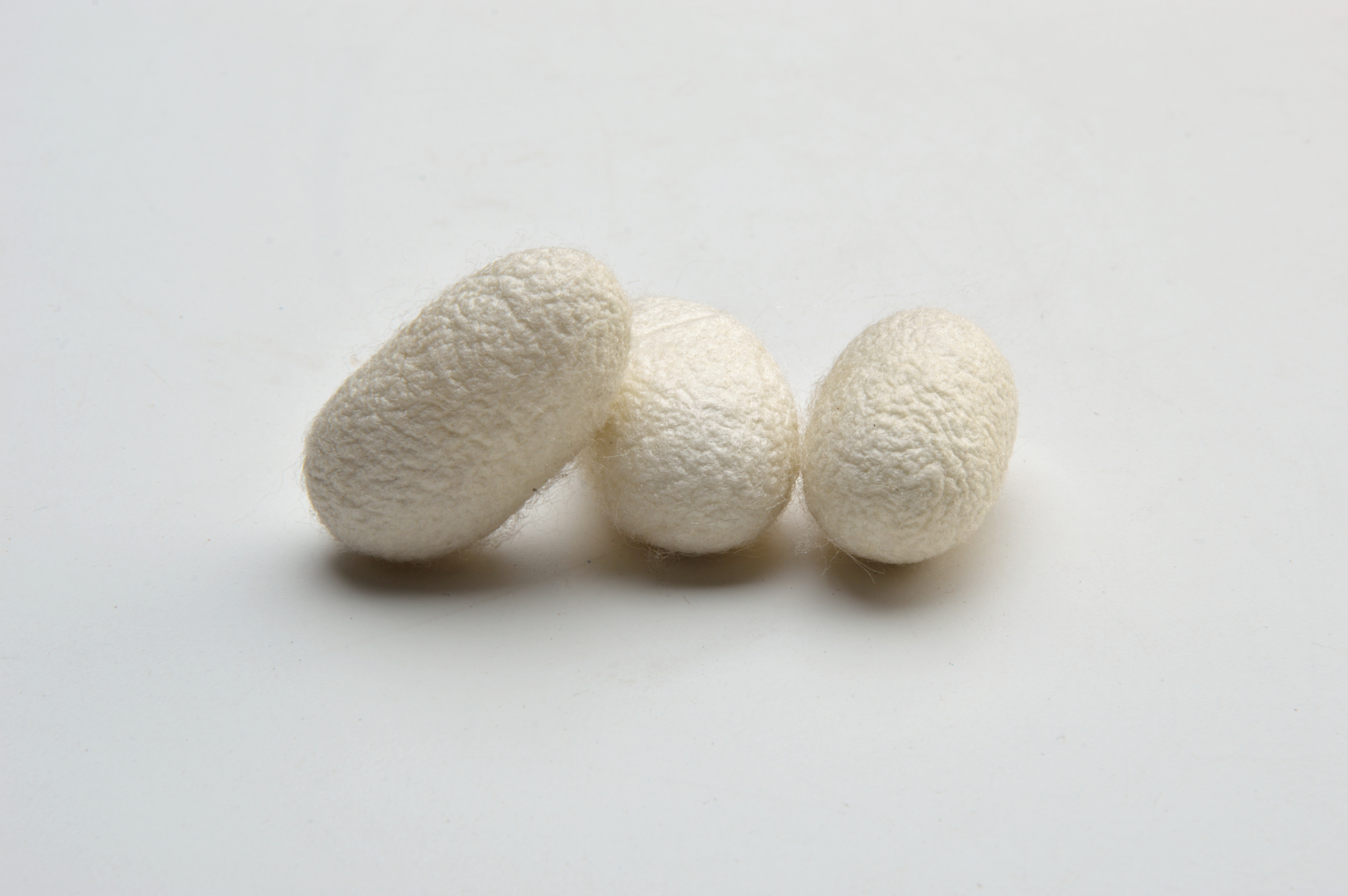 Cocoons collected from different parts of Assam, India.